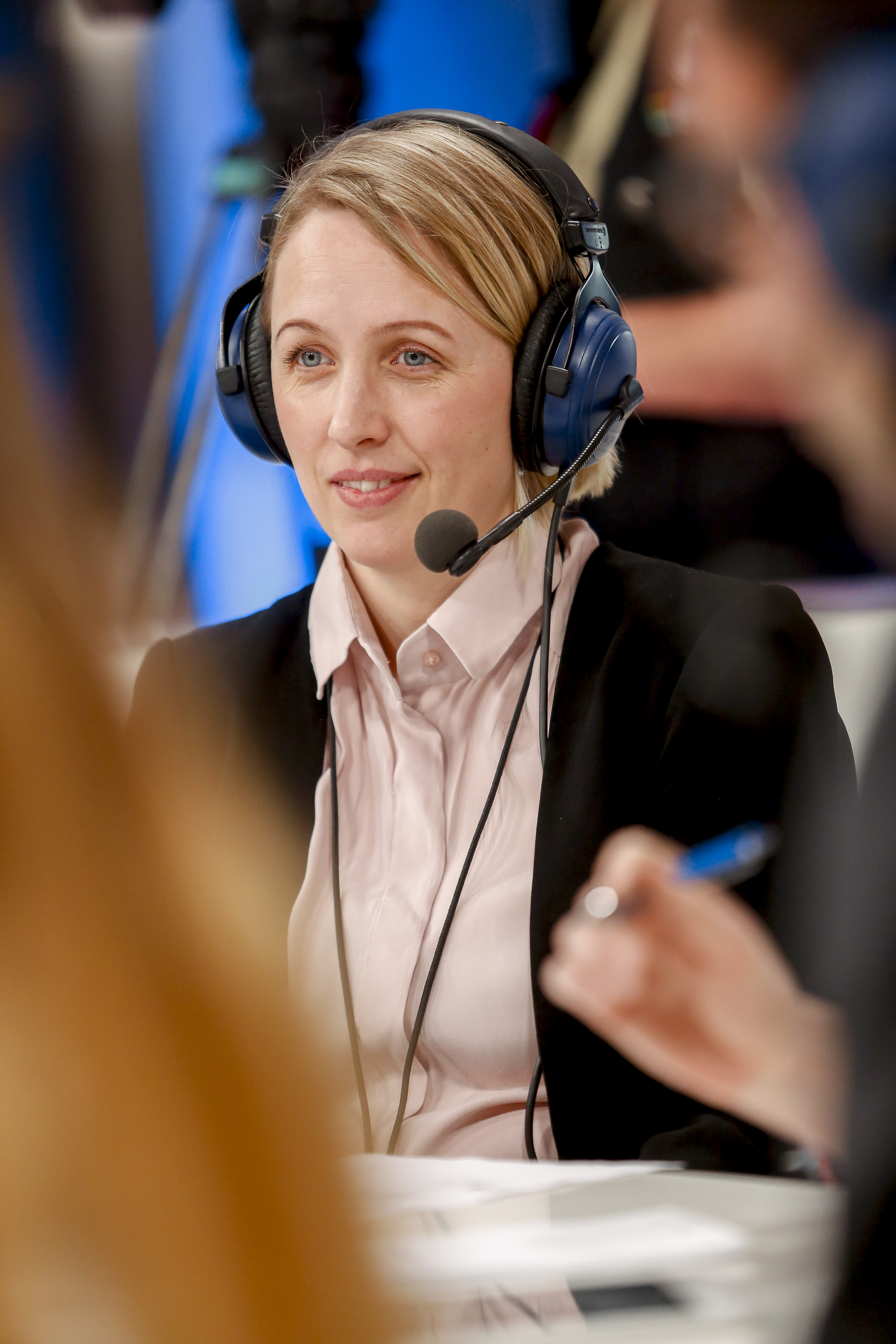 Healthcare in Europe is provided through a wide range of different systems run at national level. There’s no ‘One Size Fits All’ policy. Efficiency is one of the central preoccupations of health policy-makers and managers. So, how efficient are EU member states’ health systems; and what are the key differences between the public and the private ones? A Euranet Plus multilingual debate discussed these issues and asked: “What can the European Parliament do to improve the health systems in the EU?” The debate, broadcast live from the European Parliament in Brussels, was held in German and English. Get all the details: Part 2/2 | English | moderator Ulrike Drevenstedt | guests: - Margrete AUKEN, MEP, Denmark, Group of the Greens/European Free Alliance - Cristian-Silviu BUŞOI, MEP, Romania, Group of the European People’s Party (Christian Democrats) - Jytte GUTELAND, MEP, Sweden, Group of the Progressive Alliance of Socialists and Democrats in the European Parliament, - Dr. Renate HEINISCH, member of the European Economic and Social Committee